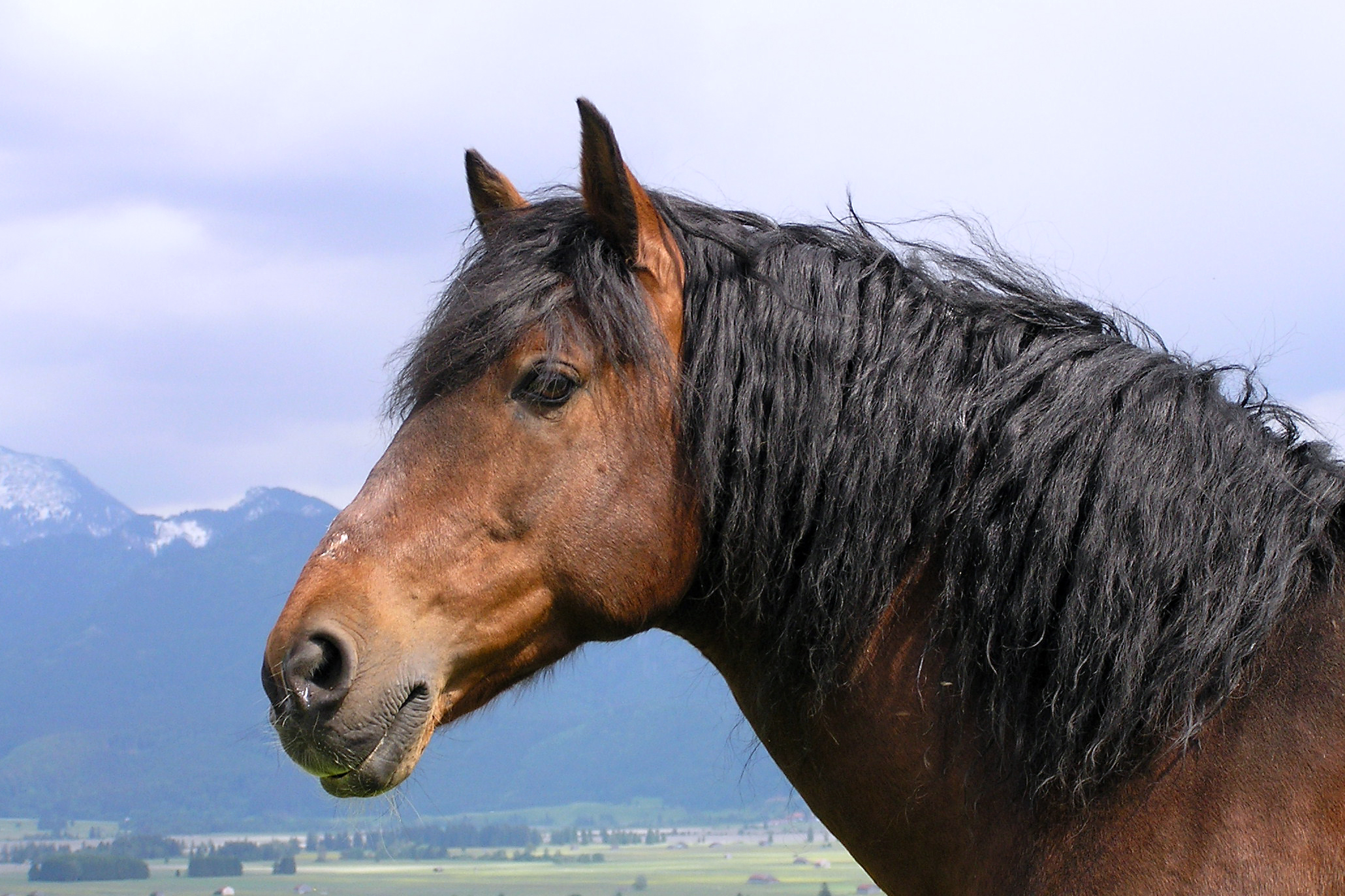 Andalusian horse